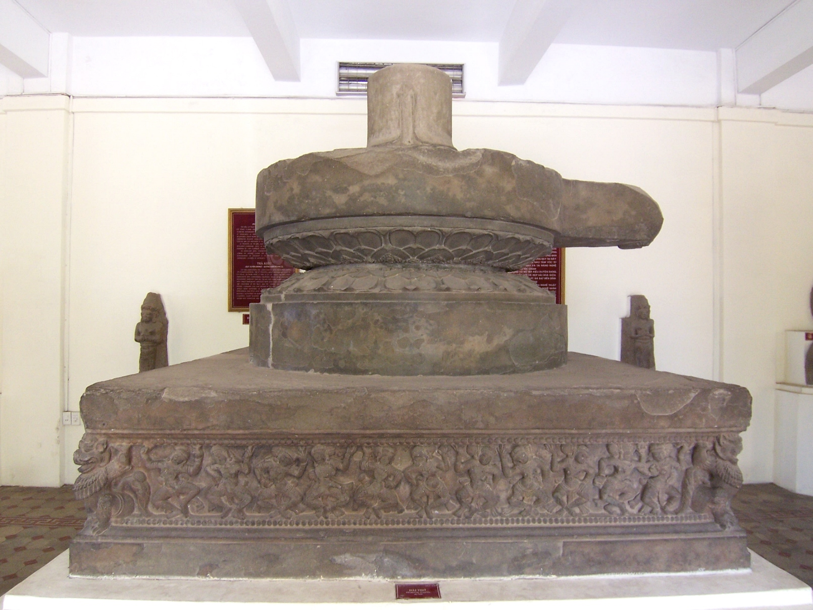 I took this photo and hereby place it into the public domain. It is of the Tra Kieu Pedestal, a work of Cham art from the 10th century belonging to the My Son A1 or Tra Kieu style.